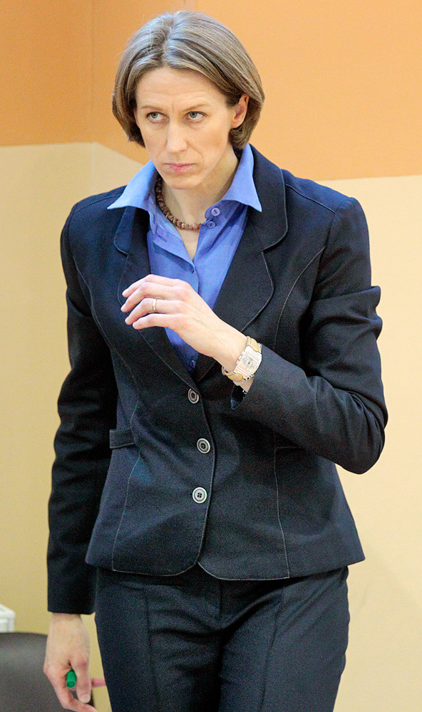 Basketball coach Jurgita Streimikyte-Virbickiene